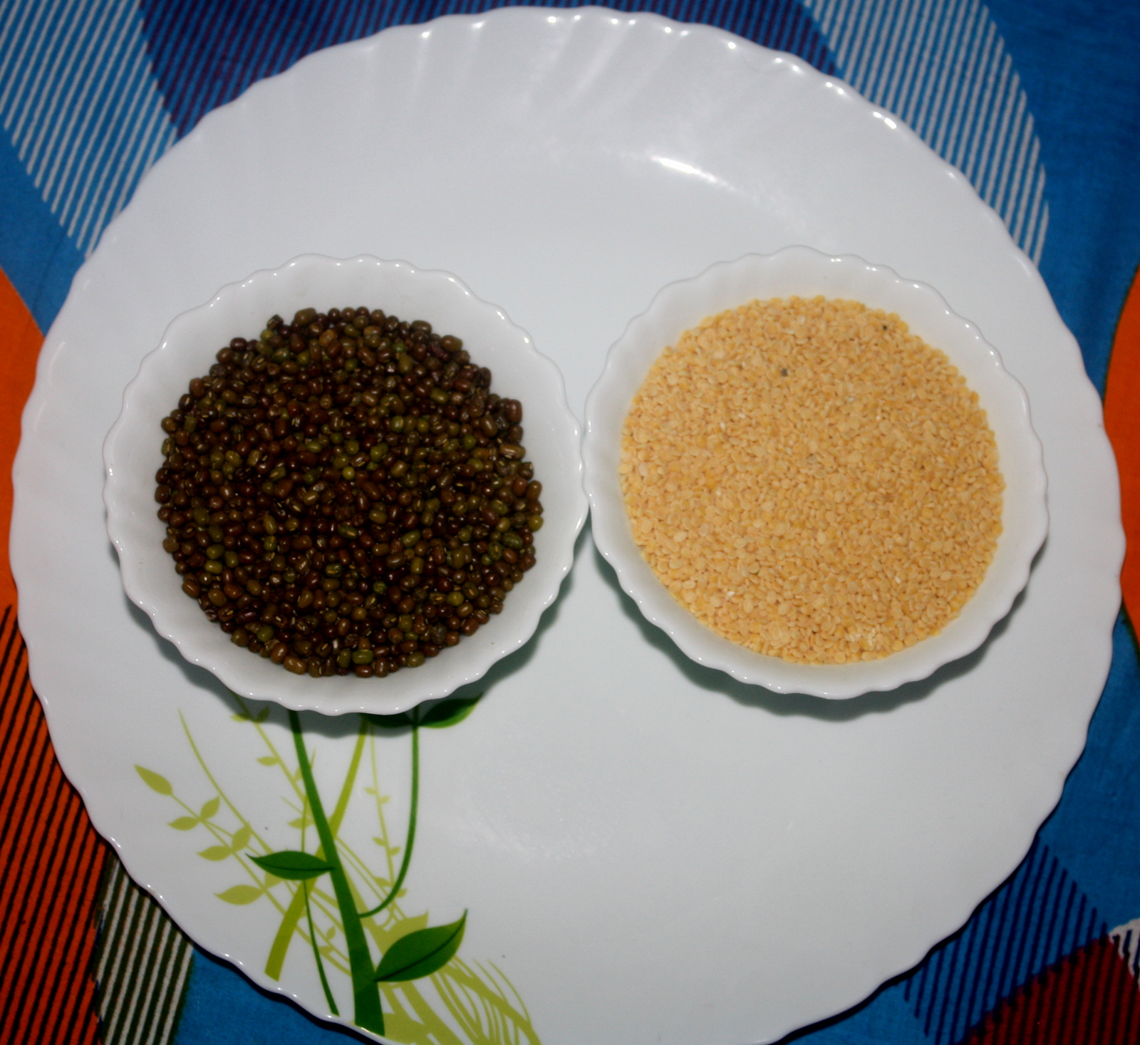 Green Gram Dal( খোসা সহ এবং খোসা ছাড়া মুগ ডাল),Kolkata, West Bengal, India